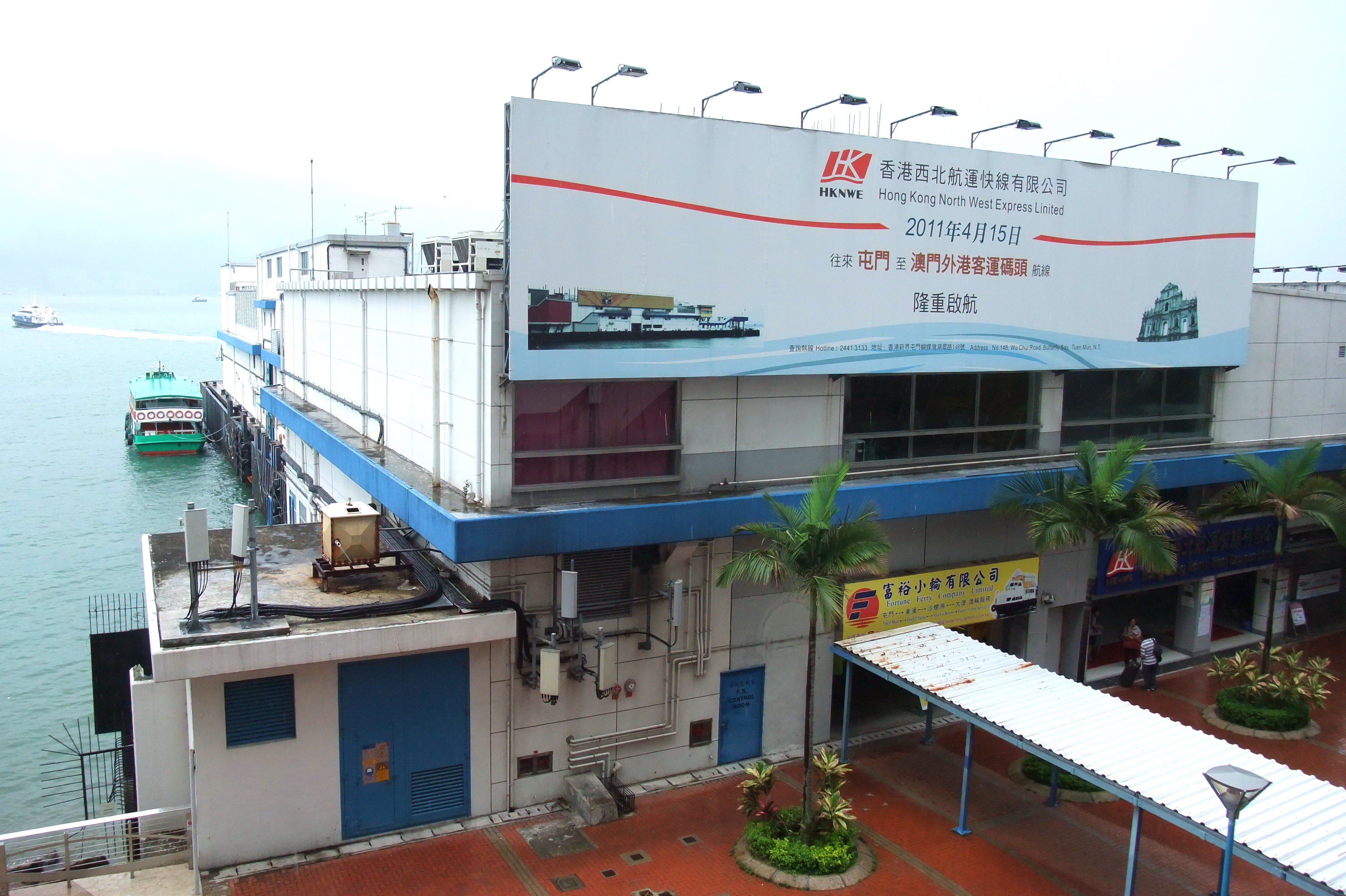 Tuen Mun Ferry Pier, Tuen Mun, New Territories, Hong Kong.